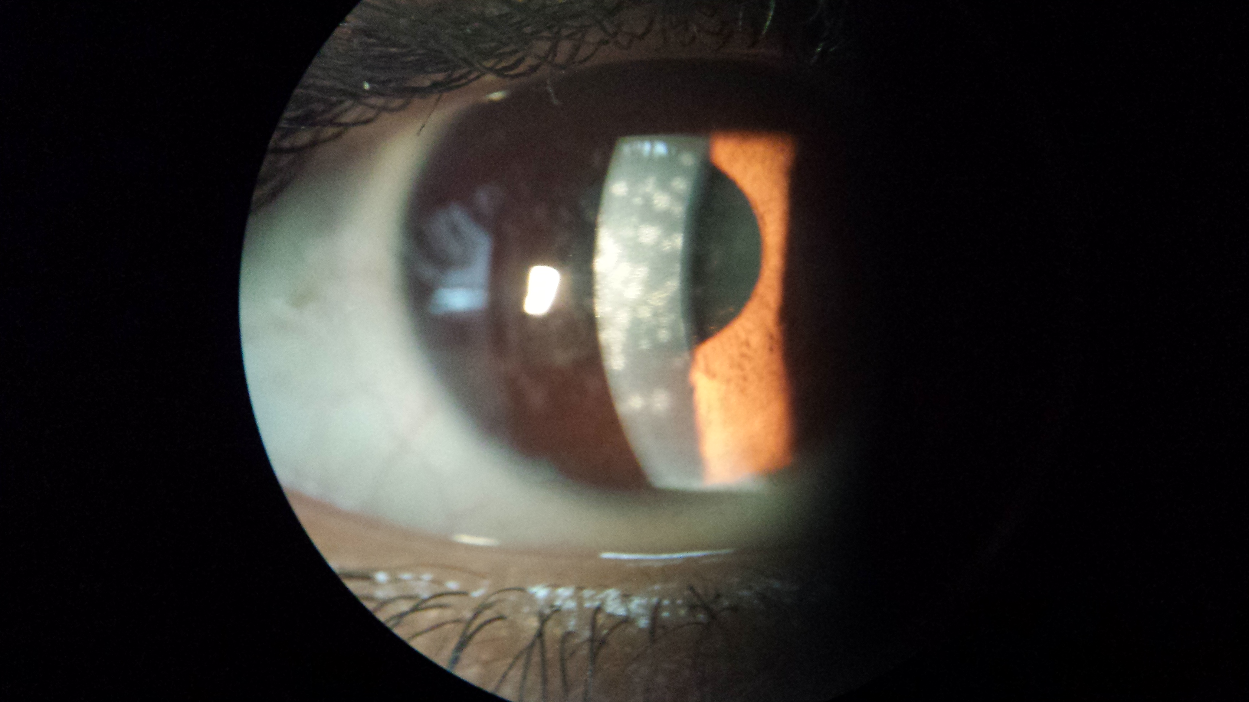 An example of nummular keratitis